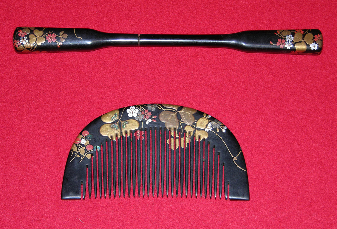 Back side. Made from wood, lacquer-corted. Period isn't clear (maybe Maiji or Taishō).